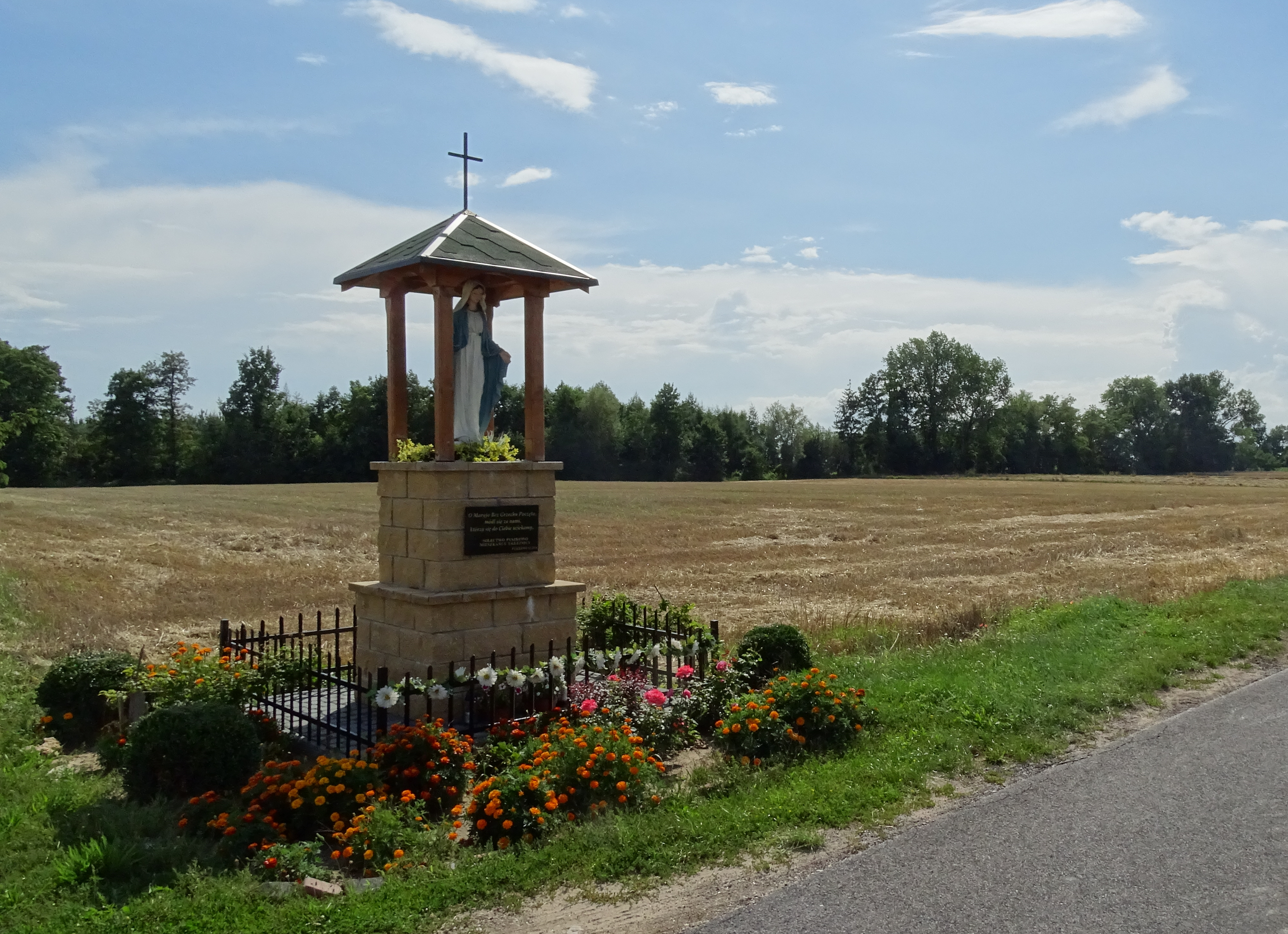 Pyszkowo, Kuyavia, Poland, roadside shrine.